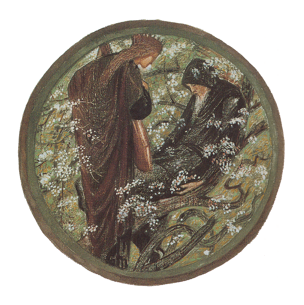 Witches' Tree. Collotype heightened with gouache on paper, from The Flower Book, published posthumously (1905) by the painter's wife in a limited edition of 300.